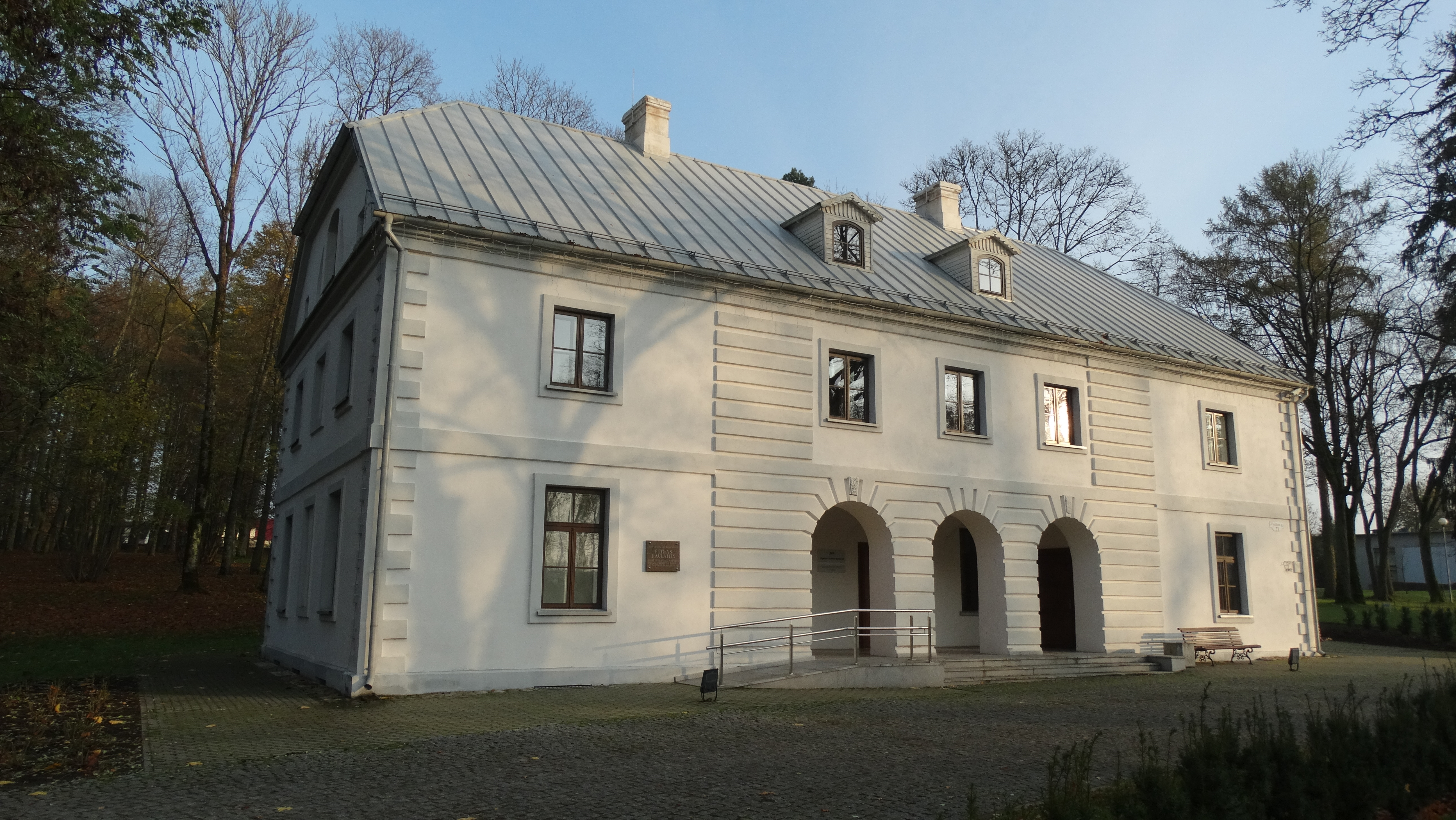 Former manor, now museum, Jurbarkas, Lithuania